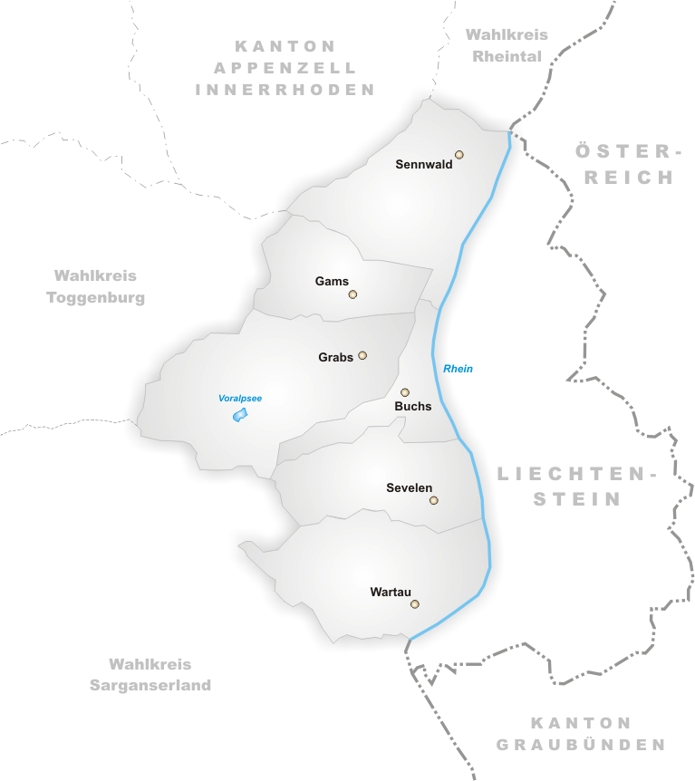 Municipalities of District Werdenberg